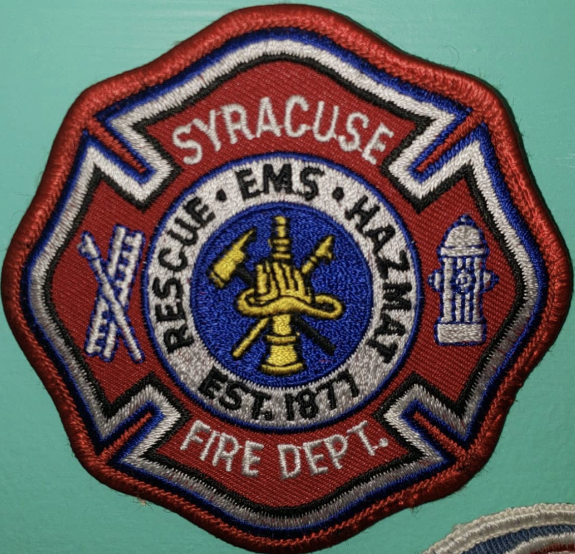 Patch of the Syracsue Fire Dept.